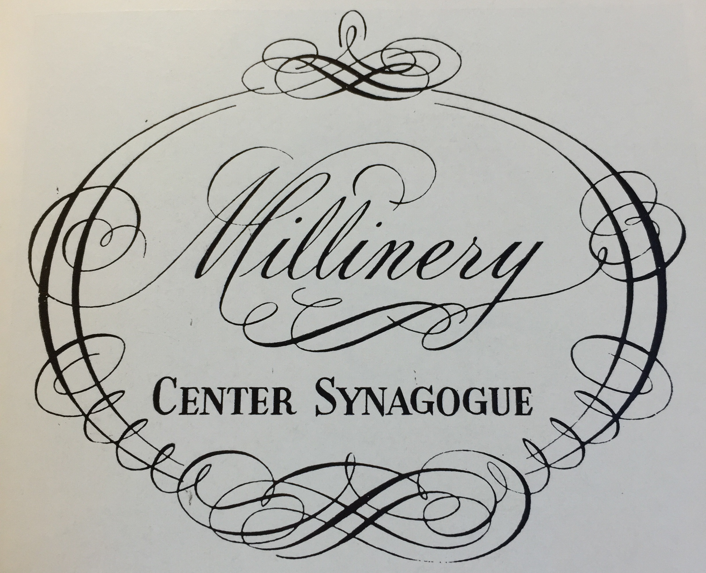 Millinery Center Synagogue, Garment Center district, New York City, Midtown Manhattan, 1025 Sixth Ave, New York, NY 10018